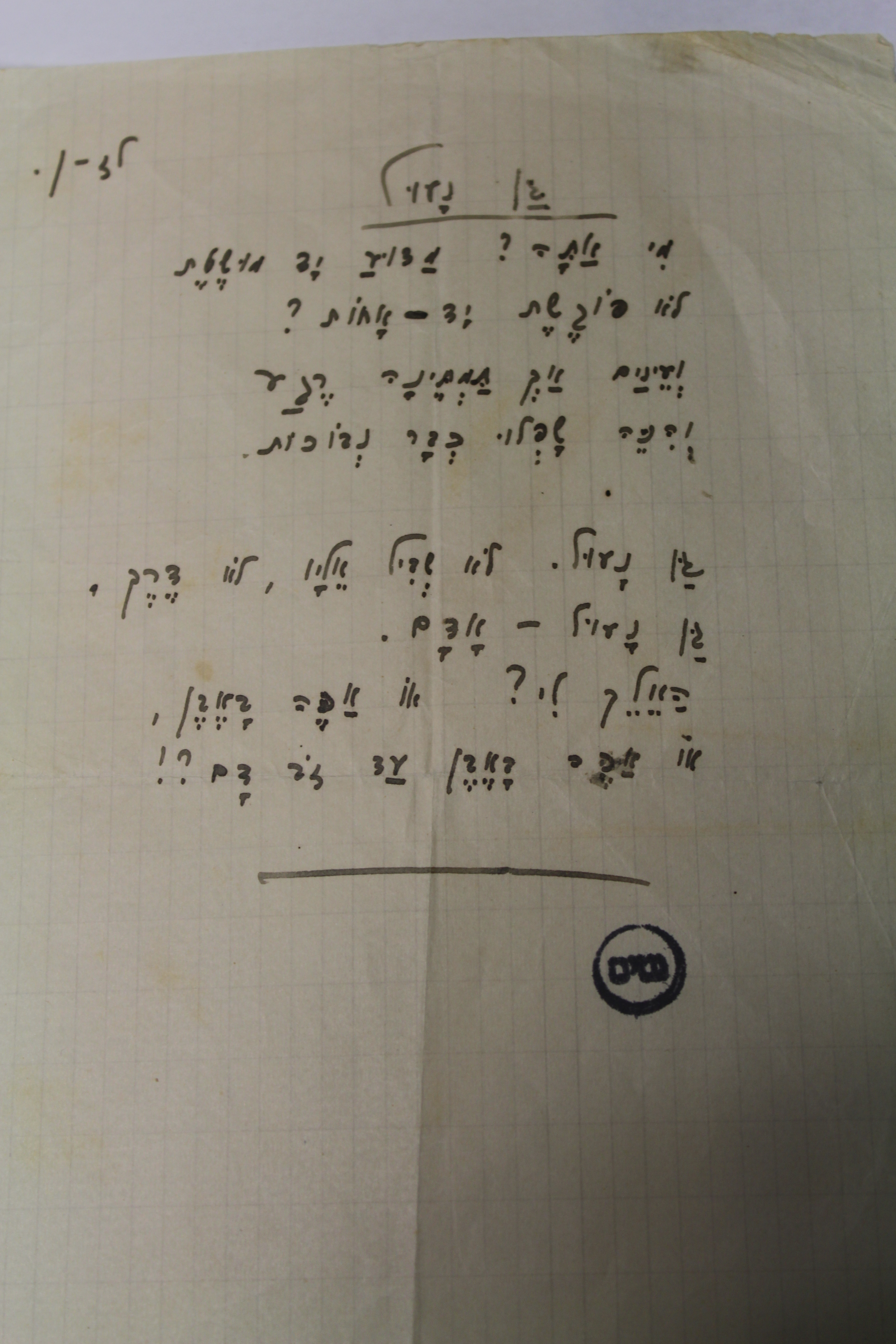 documents at Gnazim Institute archive, Beit Ariela, Tel Aviv, Israel